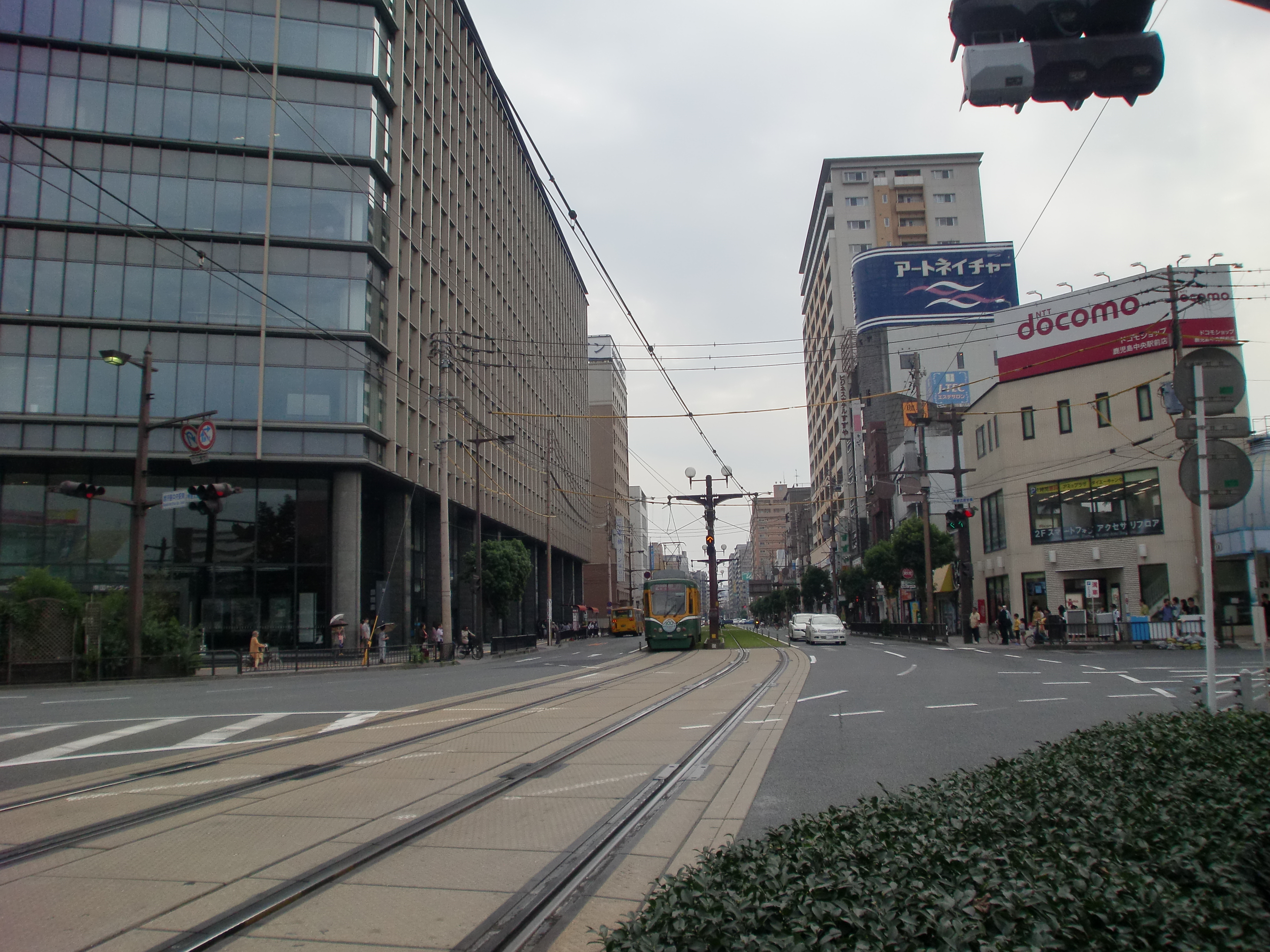 The Kagoshima Prefectural Road Route 24 near Kagoshima-Chuo Station, view towards Hioki